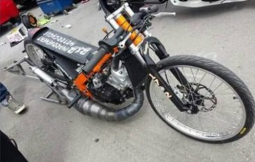 A specially modified Yamaha Pro Z in a dragster stadium.